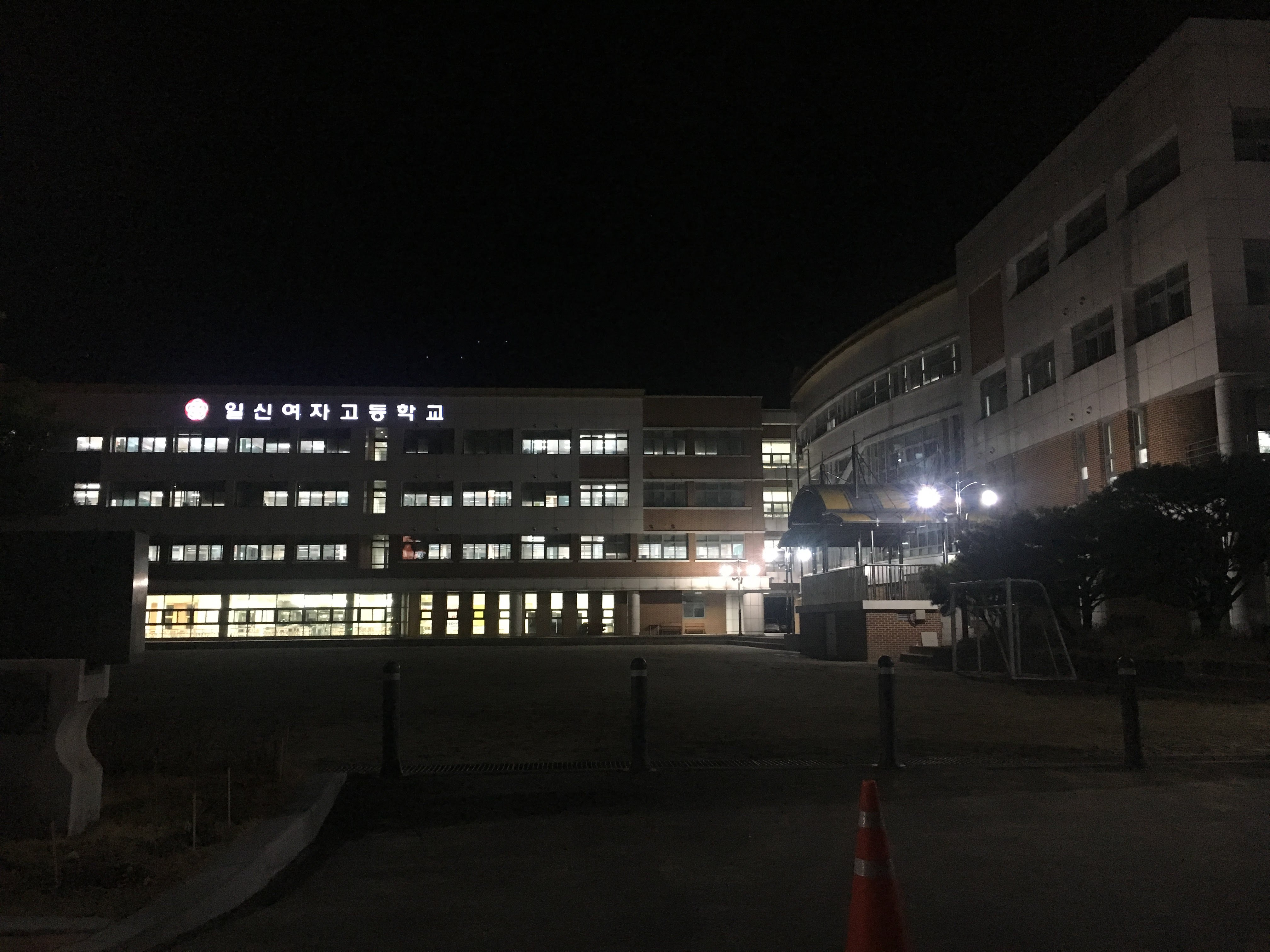 High school in Chungju